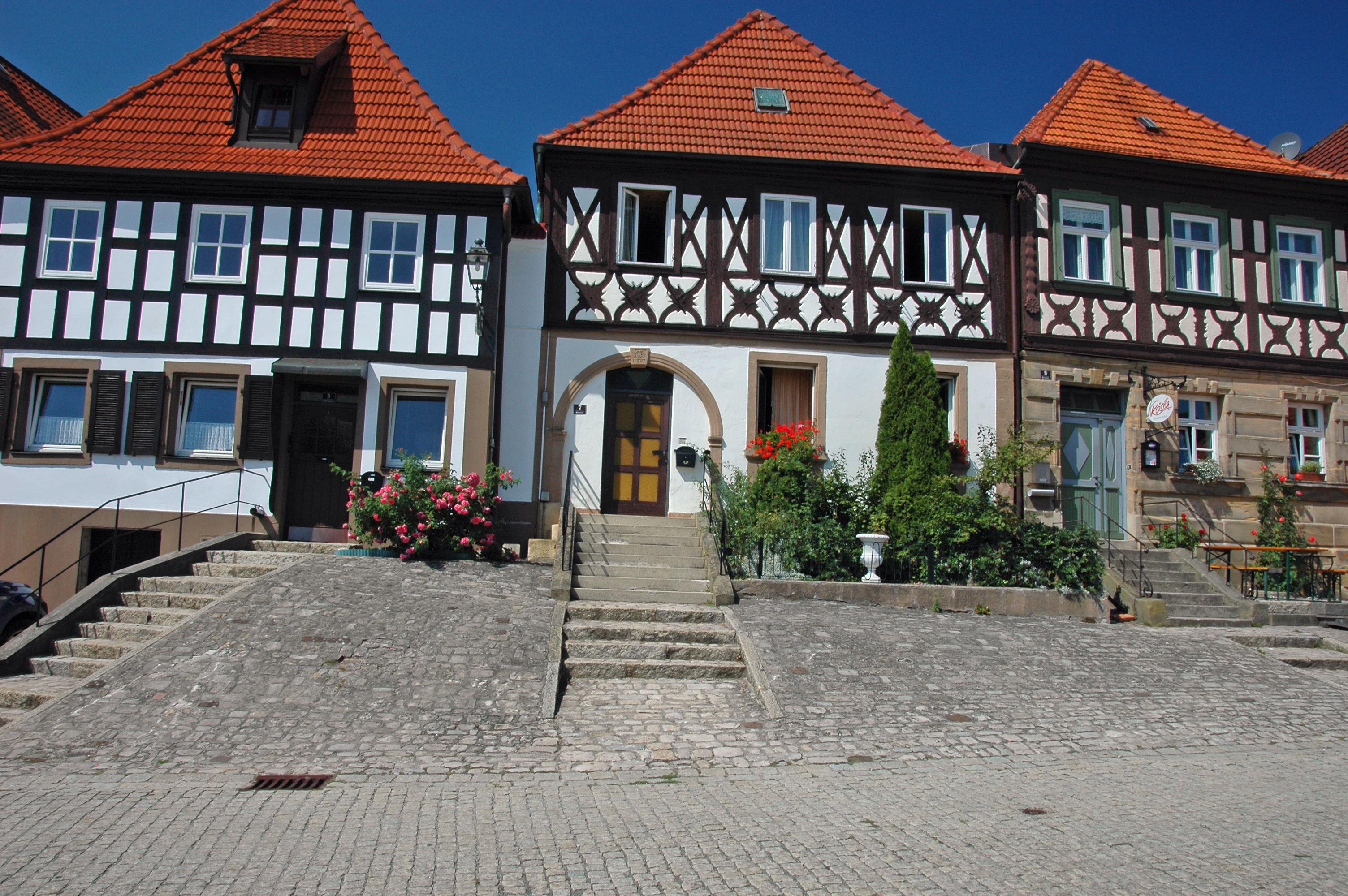 Houses at the main square in Burgkunstadt (Germany)